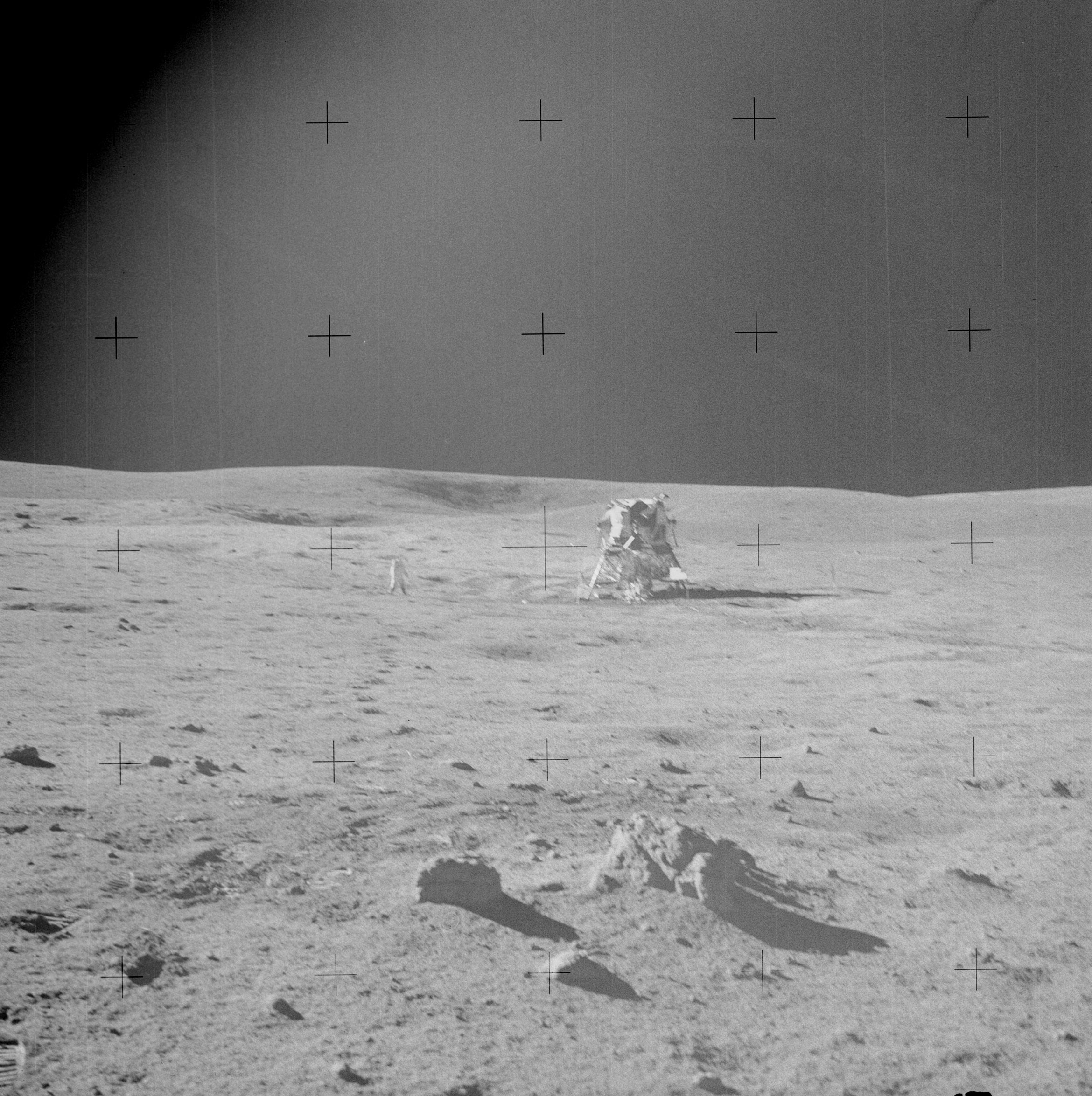 NASA photo AS14-68-9487